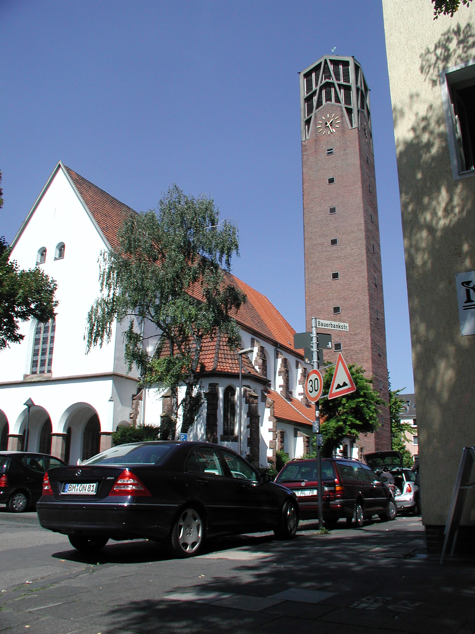 Bauerbankstraße-Köln-Zollstock This is a photograph of an architectural monument.